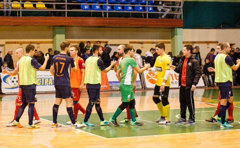 Scenes from the match Uragan - Uni-Laman (2016/17)